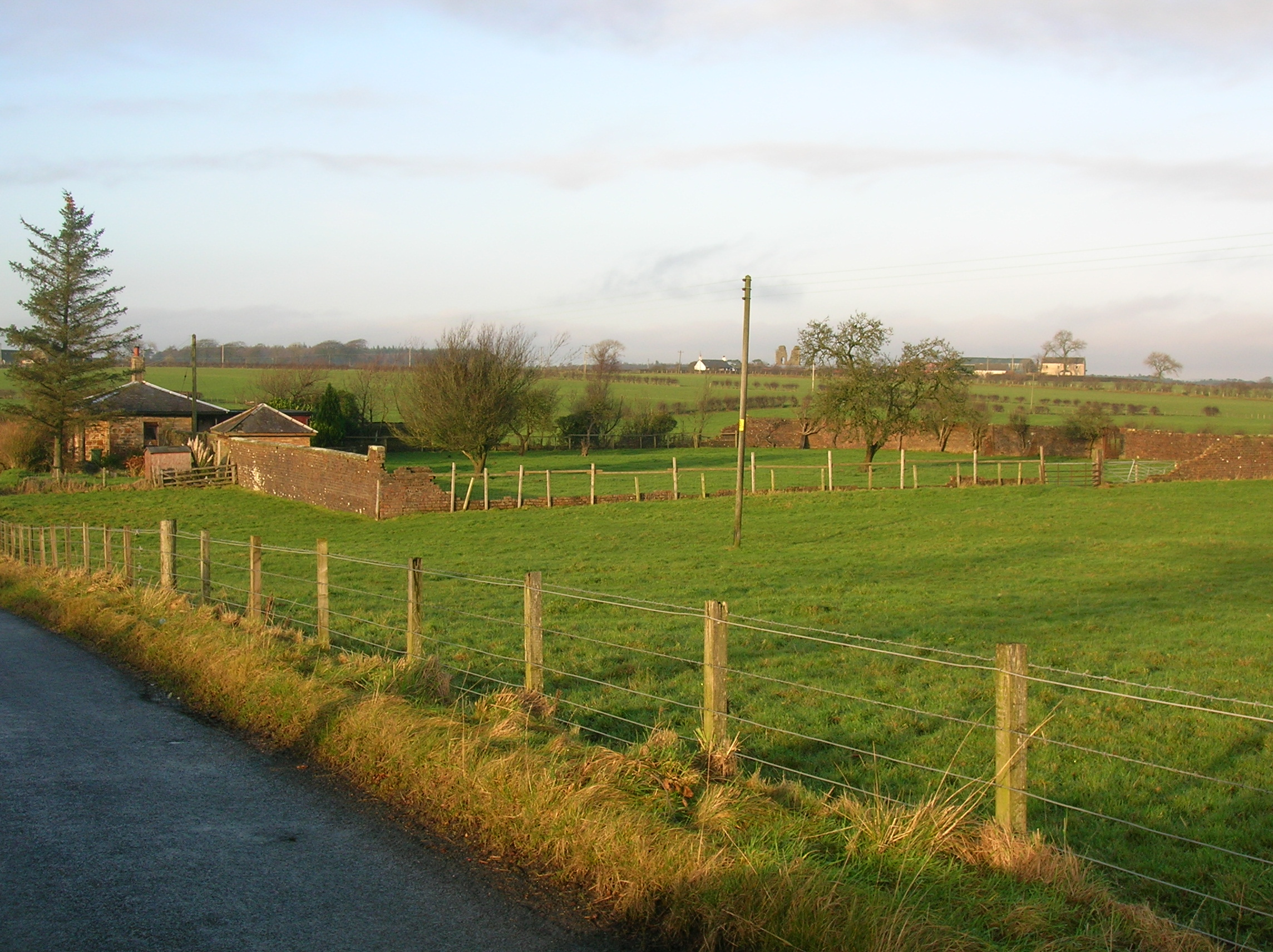 Girgenti walled garden, East Ayrshire, Scotland